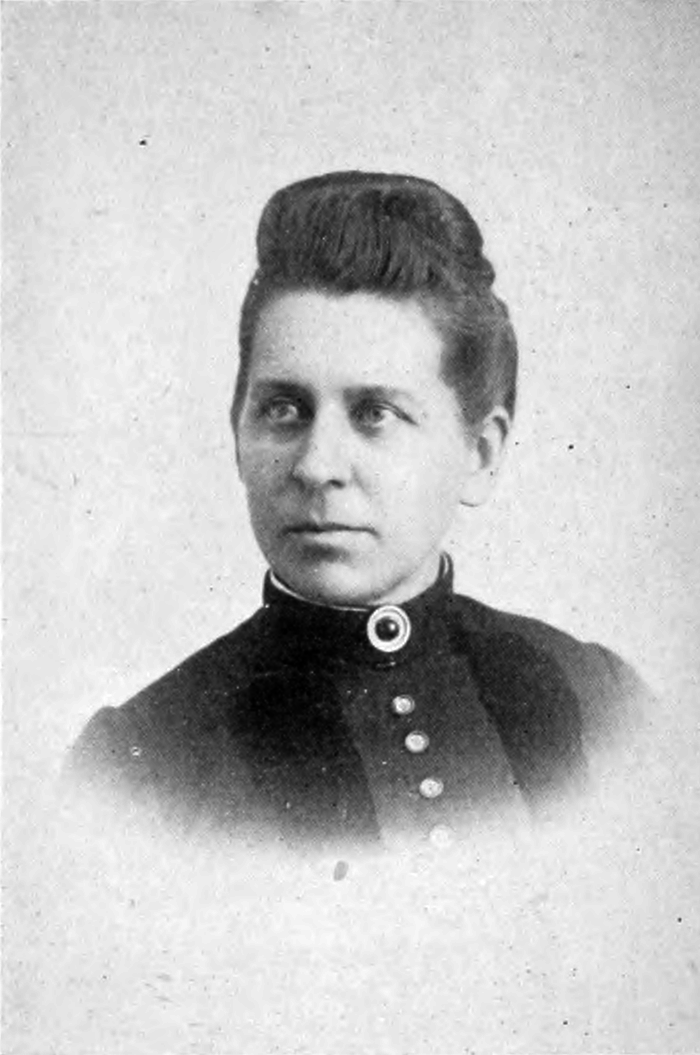 CORNELIA MOORE CHILLSON MOOTS A woman of the century (page 528 crop).jpg